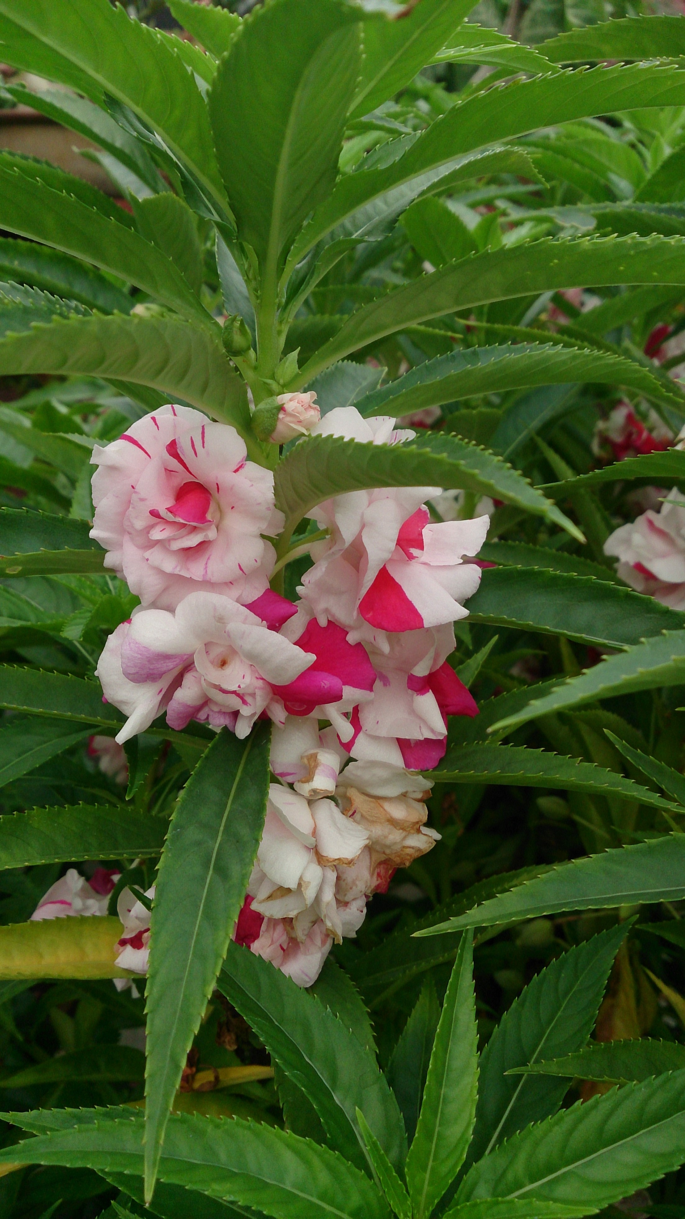 Impatiens balsamina. Common names: Balsam. Touch-Me-Not. 凤仙花 (Chinese). Origin: India.